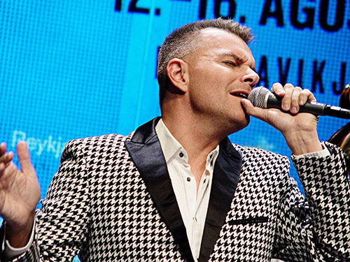 Paul Oscar (Páll Óskar Hjálmtýsson) at Reykjavik Jazz Festival 2015